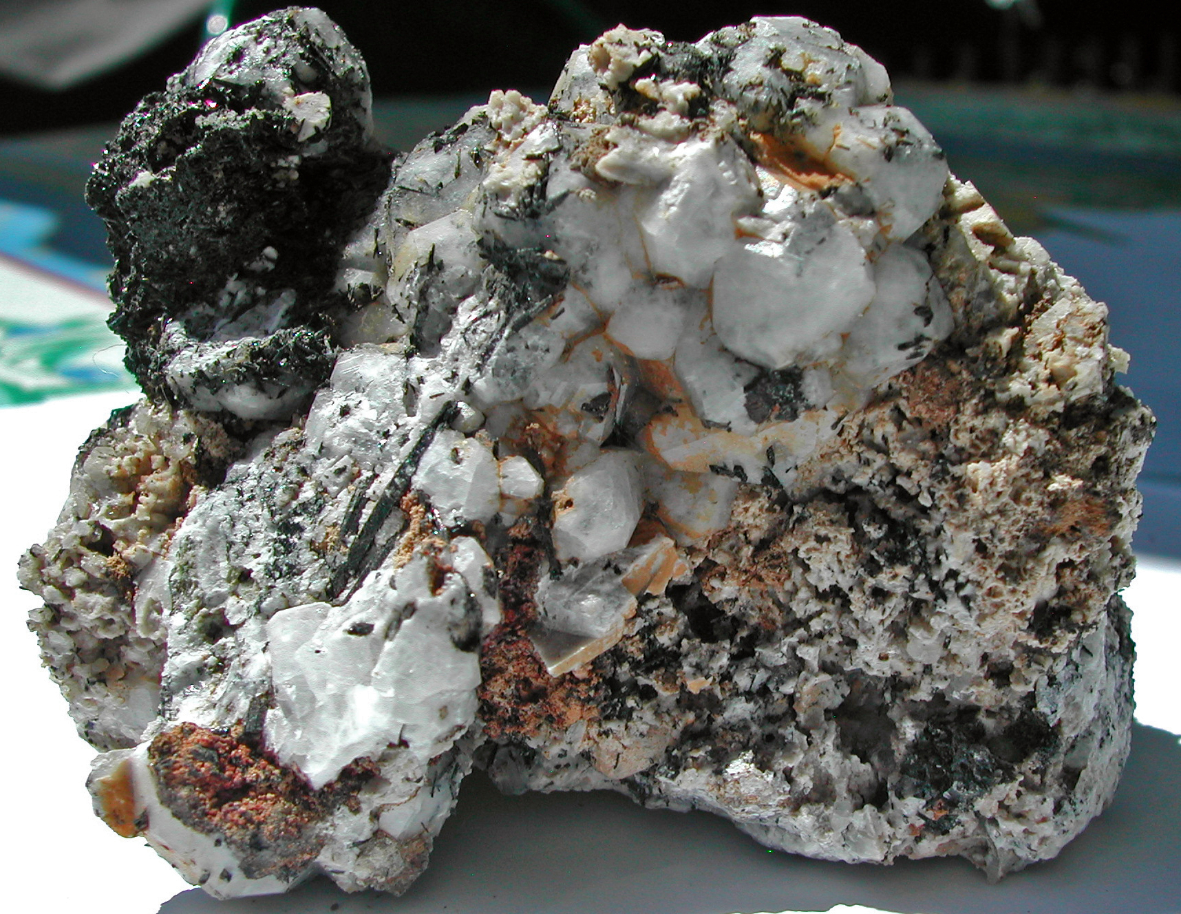 Analcite (Analcime) from Poudrette quarry, Mont-Saint-Hilaire